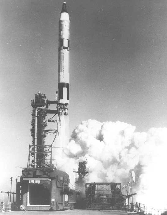 Launch of the Gemini 2 spacecraft.